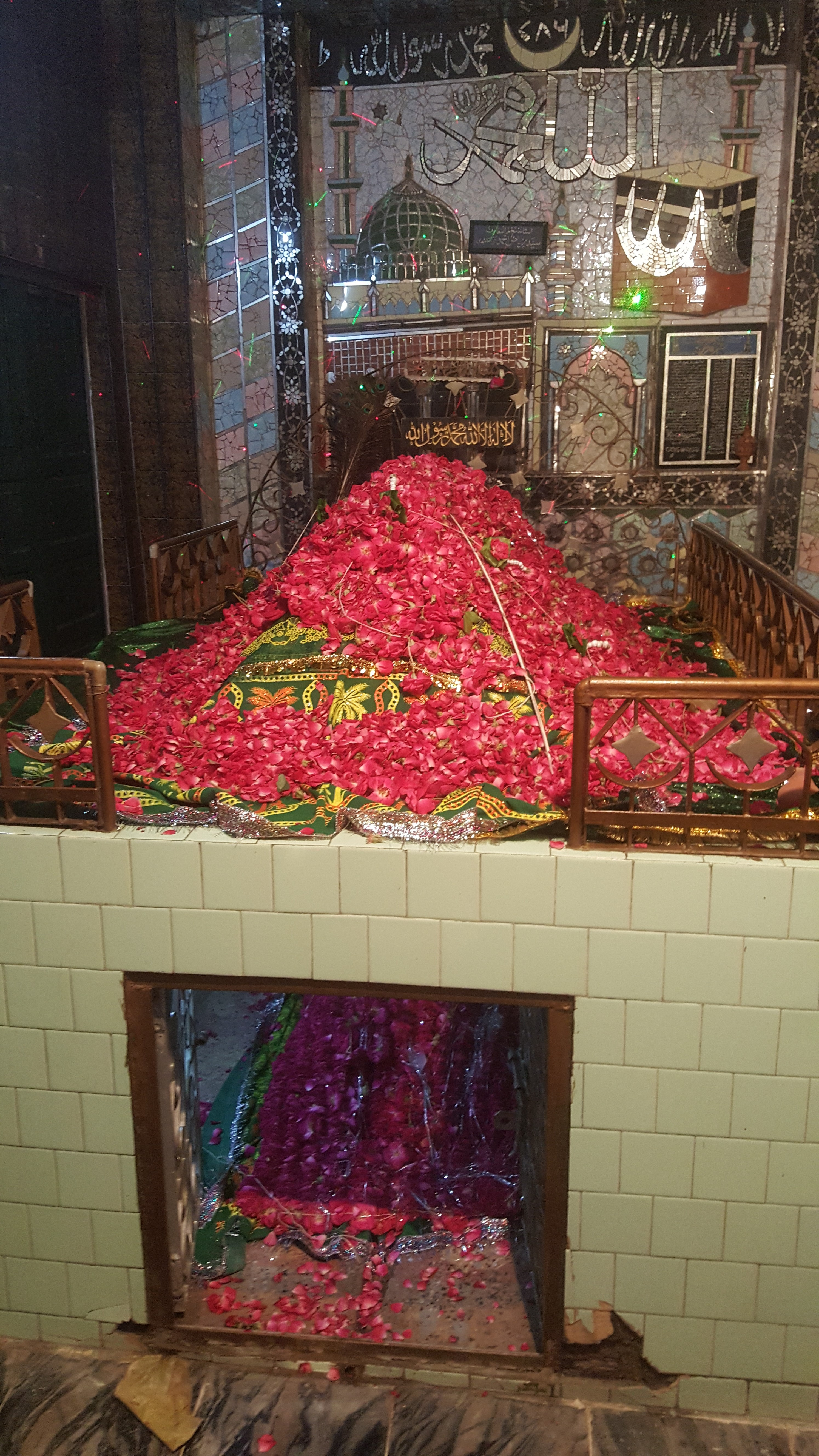 Grave of Syed Riyaz Ahmad Naqshbandi